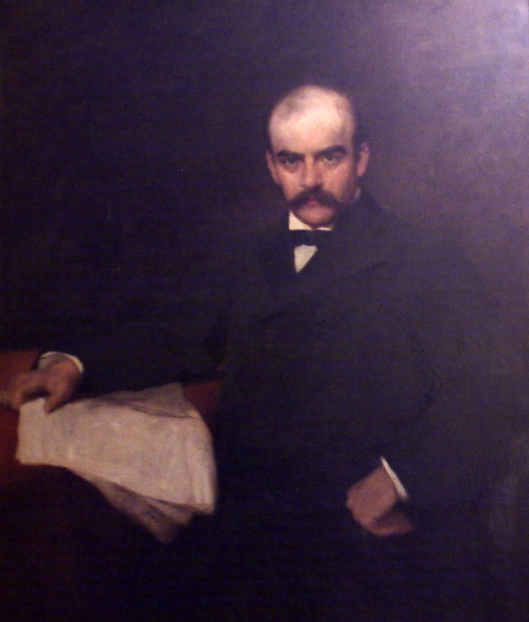 Portrait of Georg Klemperer